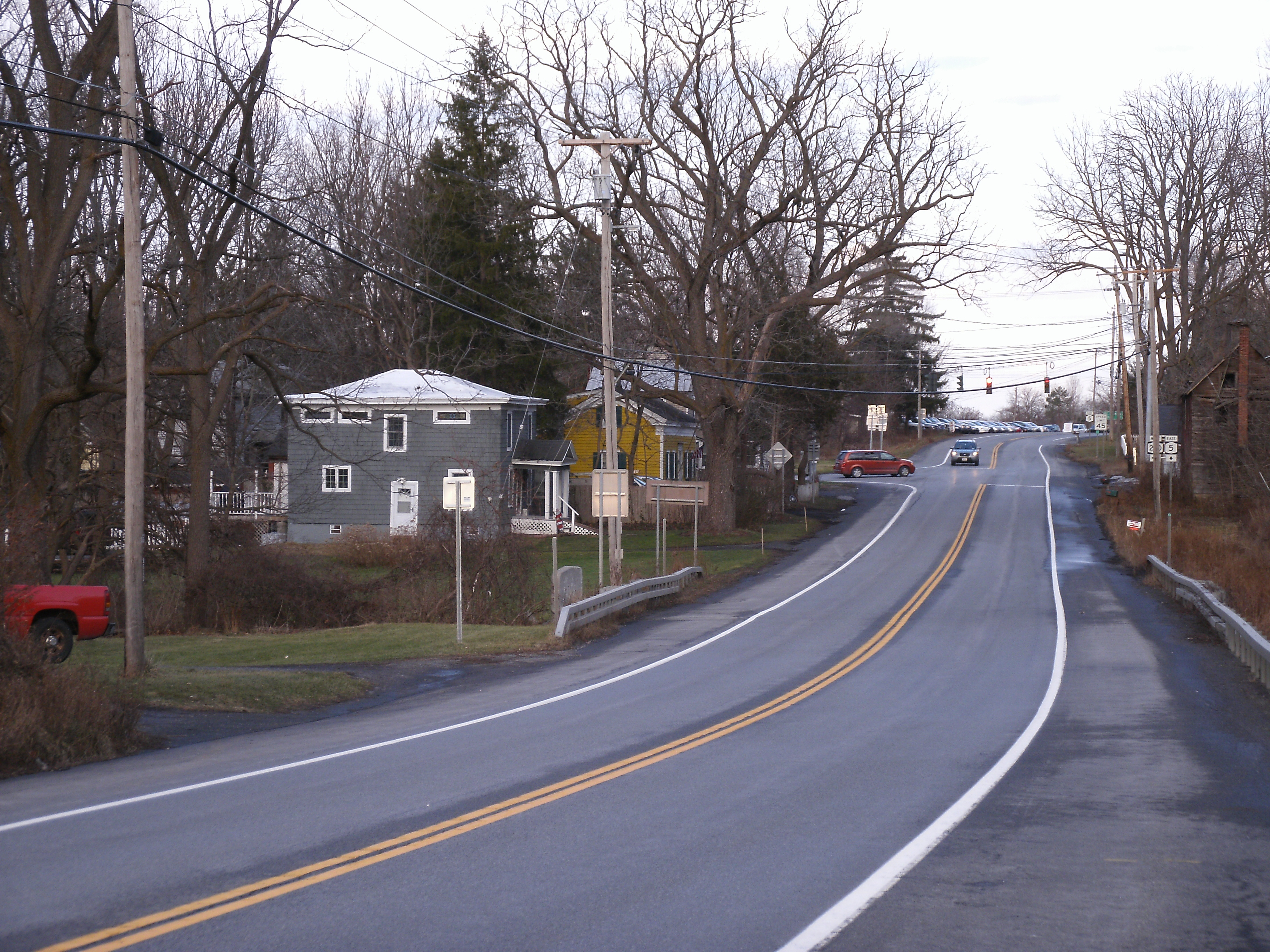 Hamlet of Mycenae, in town of Manlius, New York. This view looks east at houses along NY 5 and intersection with NY 290 (which goes off to the left).